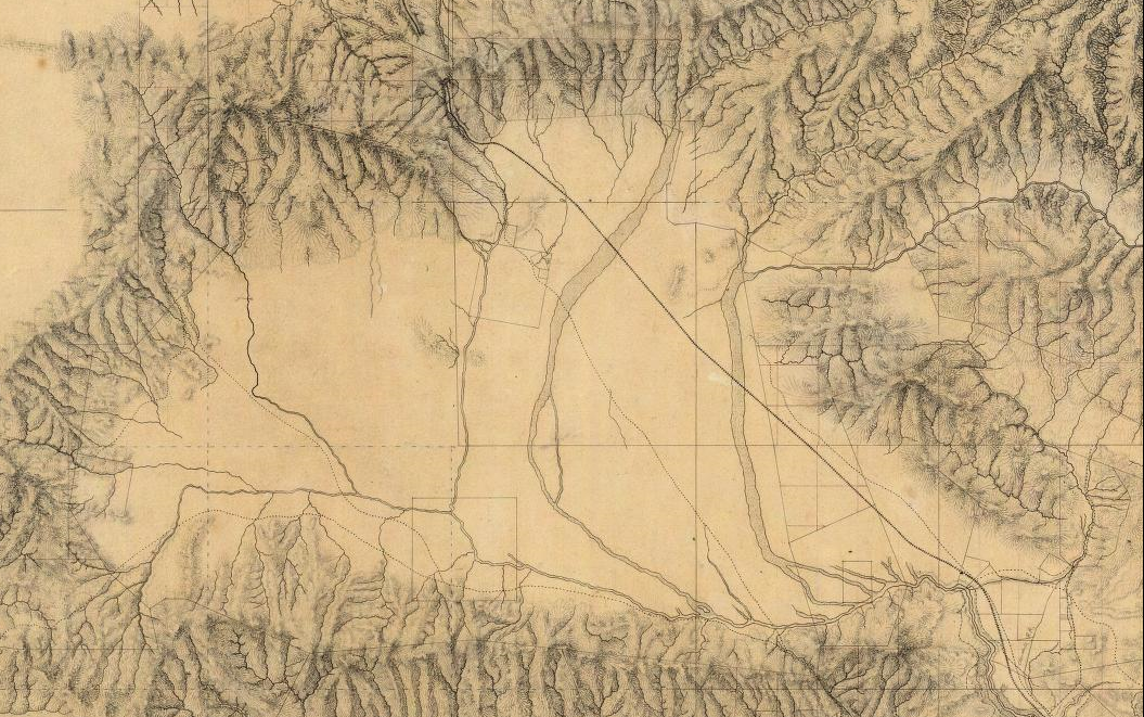 Detail of the San Fernando Valley, from a manuscript map of Los Angeles and San Bernardino topography, 1880, by William Hammond Hall, Office of the State Engineer, California. The map shows Rancho El Escorpión (center left, in the foothills), Rancho El Encino or Rancho Los Encinos (lower center), Mission San Fernando Rey de España (center top), and the Rancho Cahuenga inholding within Rancho Providencia (lower right). The upper Los Angeles River and its tributaries are also shown.